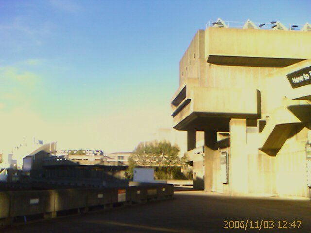 QEH foyer building, with Hayward gallery to right 3 November 2006